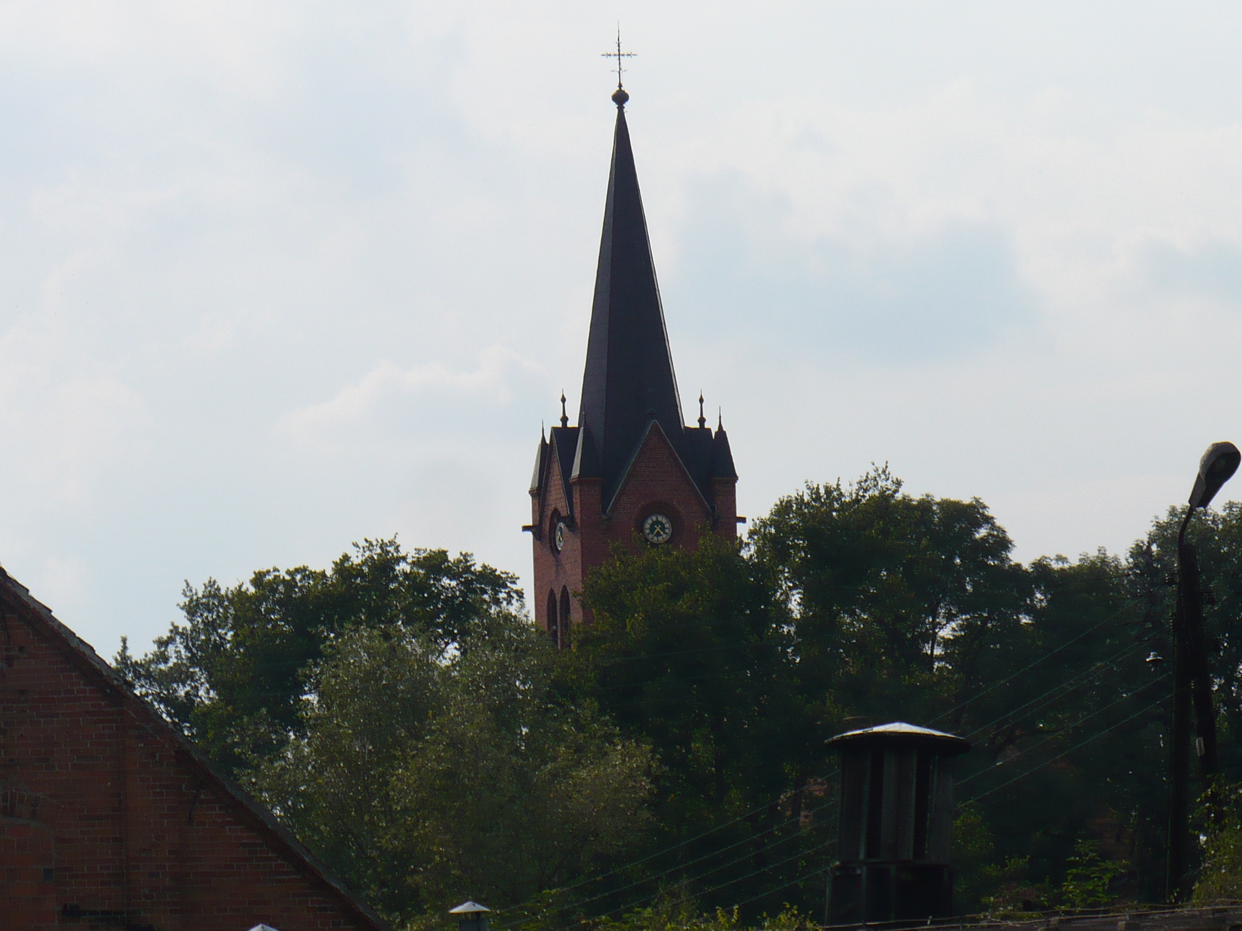 Church in Pogorzelica (wielkopolskie).